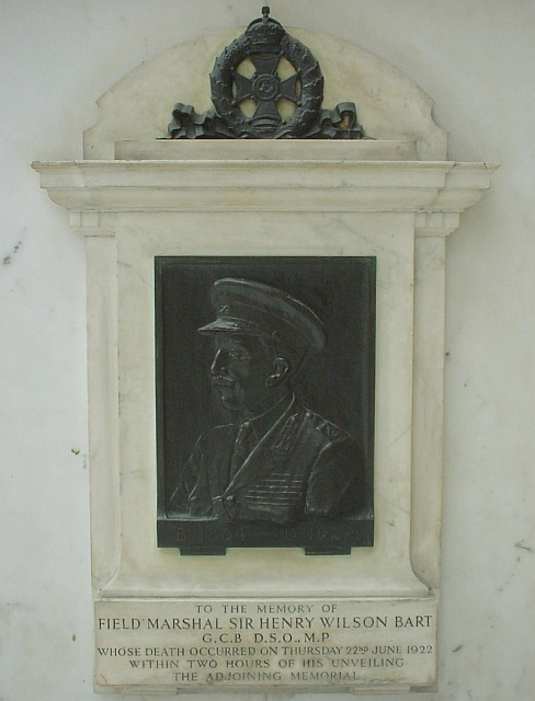 Photograph of Memorial to Field Marshal Sir Henry Wilson at Liverpool Street Station, London